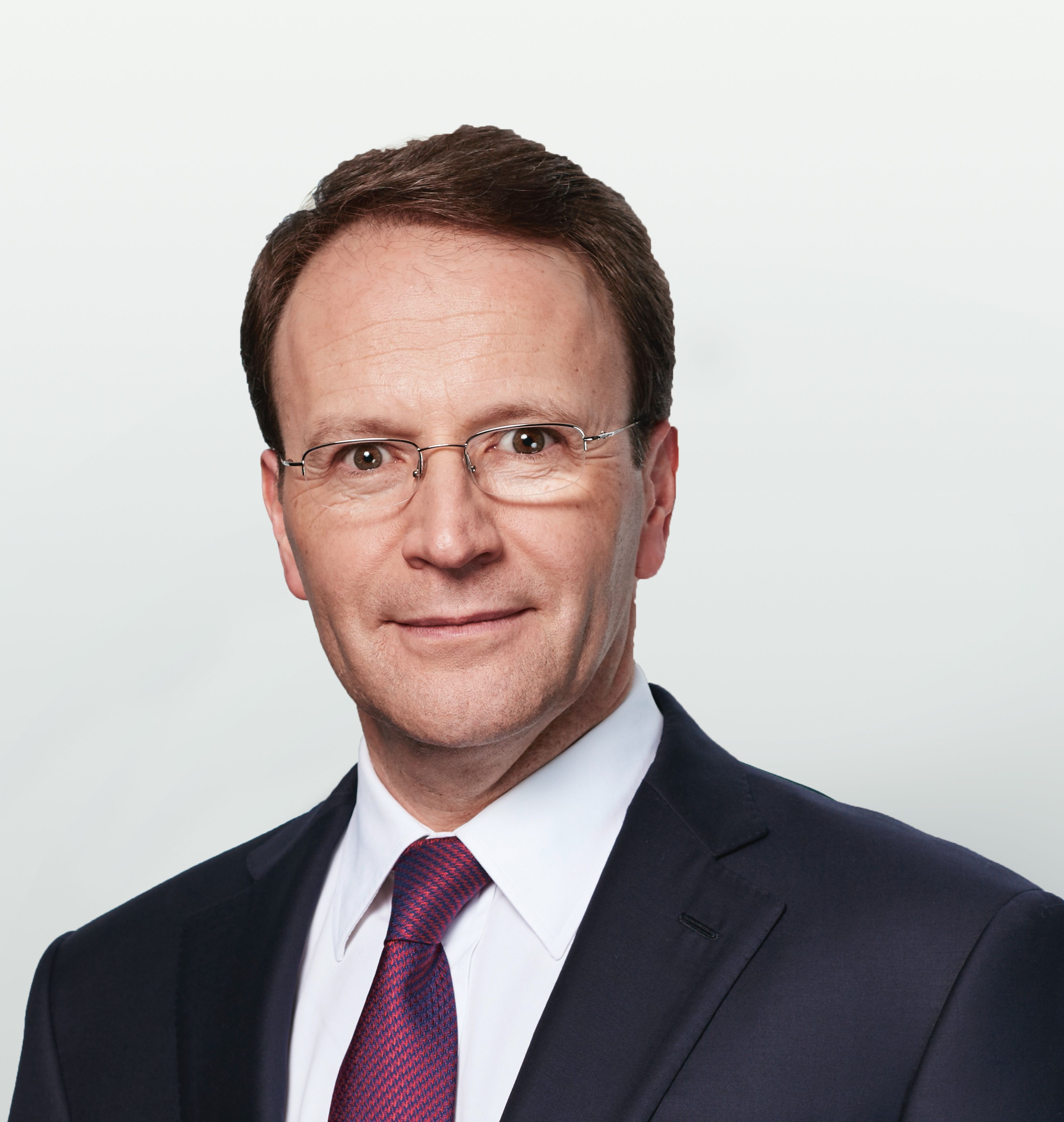 Chief Executive Officer, Nestlé S.A.